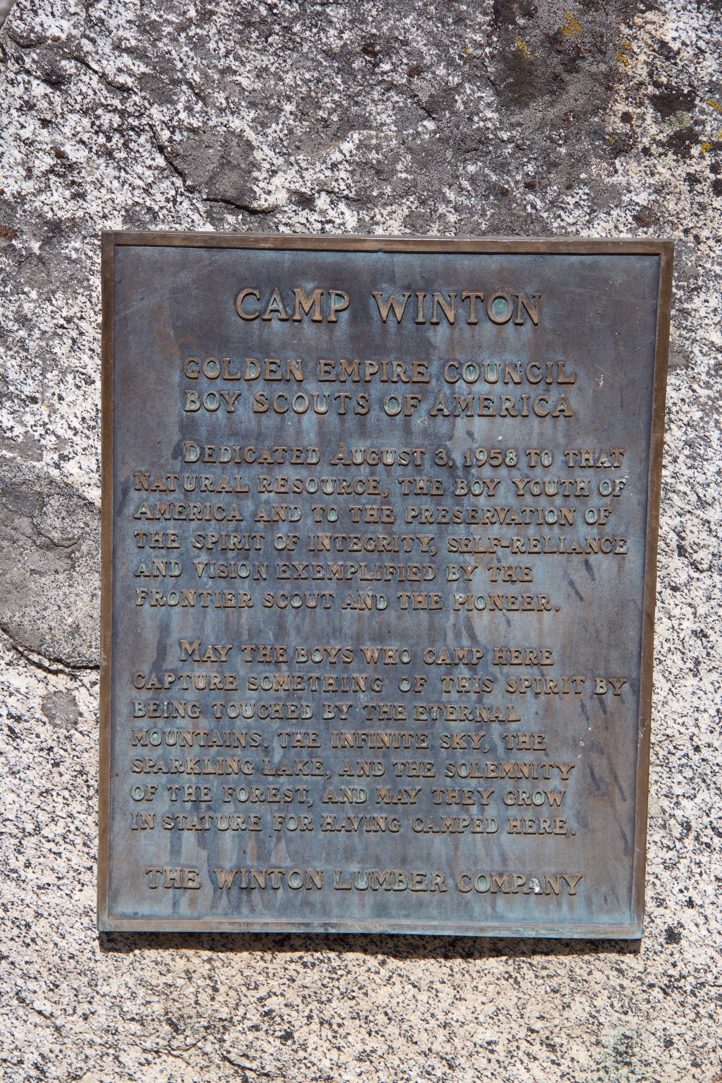 The body of the plaque reads: "Dedicated August 3, 1958 to that resource, the boy youth of America and the spirit of integrity, self-reliance and vision exemplified by the frontier scout and the pioneer. May the boys who camp here capture something of this spirit by being touched by the eternal mountains, the infinite sky, the sparkling lake, and the solemnity of the forest, and may they grow in stature for having camped here. The Winton Lumber Company"